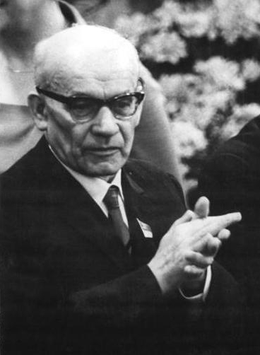 Władysław Gomułka Portrait